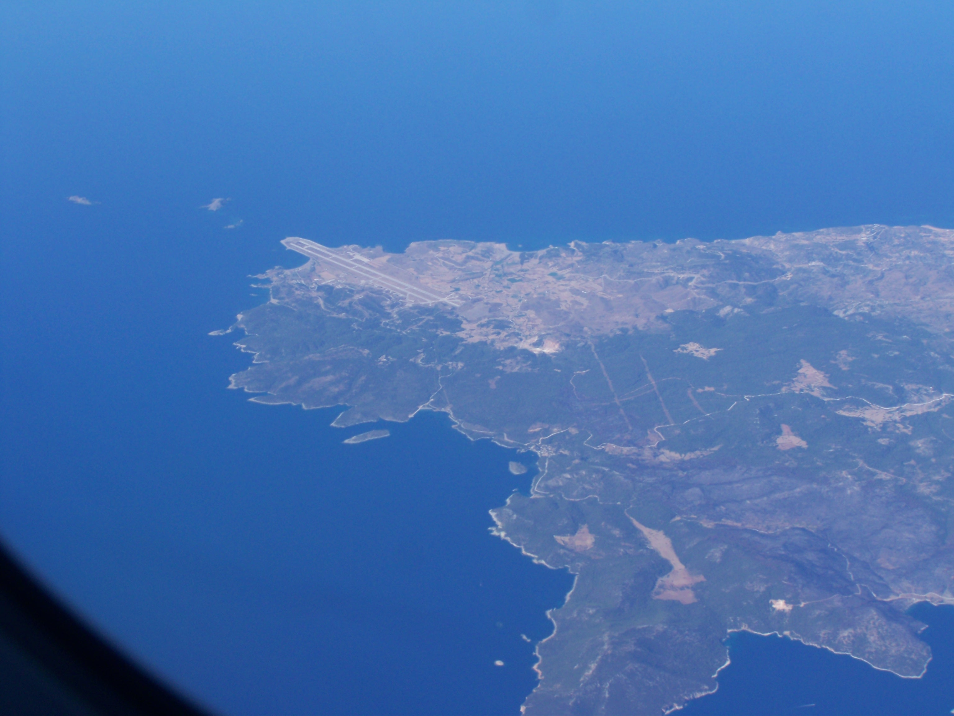 Aerial photograph of the Skyros airport taken from an Aegean A320 flying ATH–MUC.